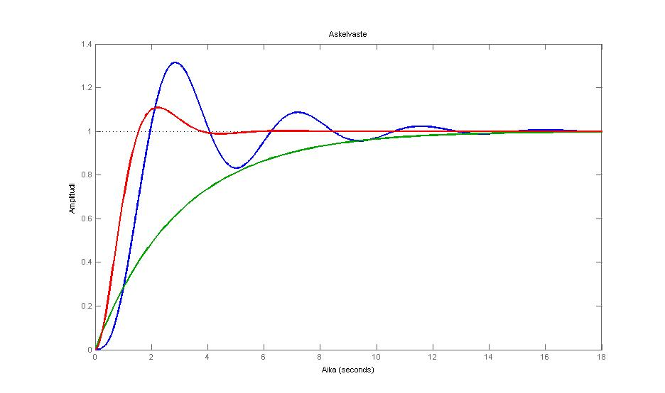 Step functions drawn with matlab.